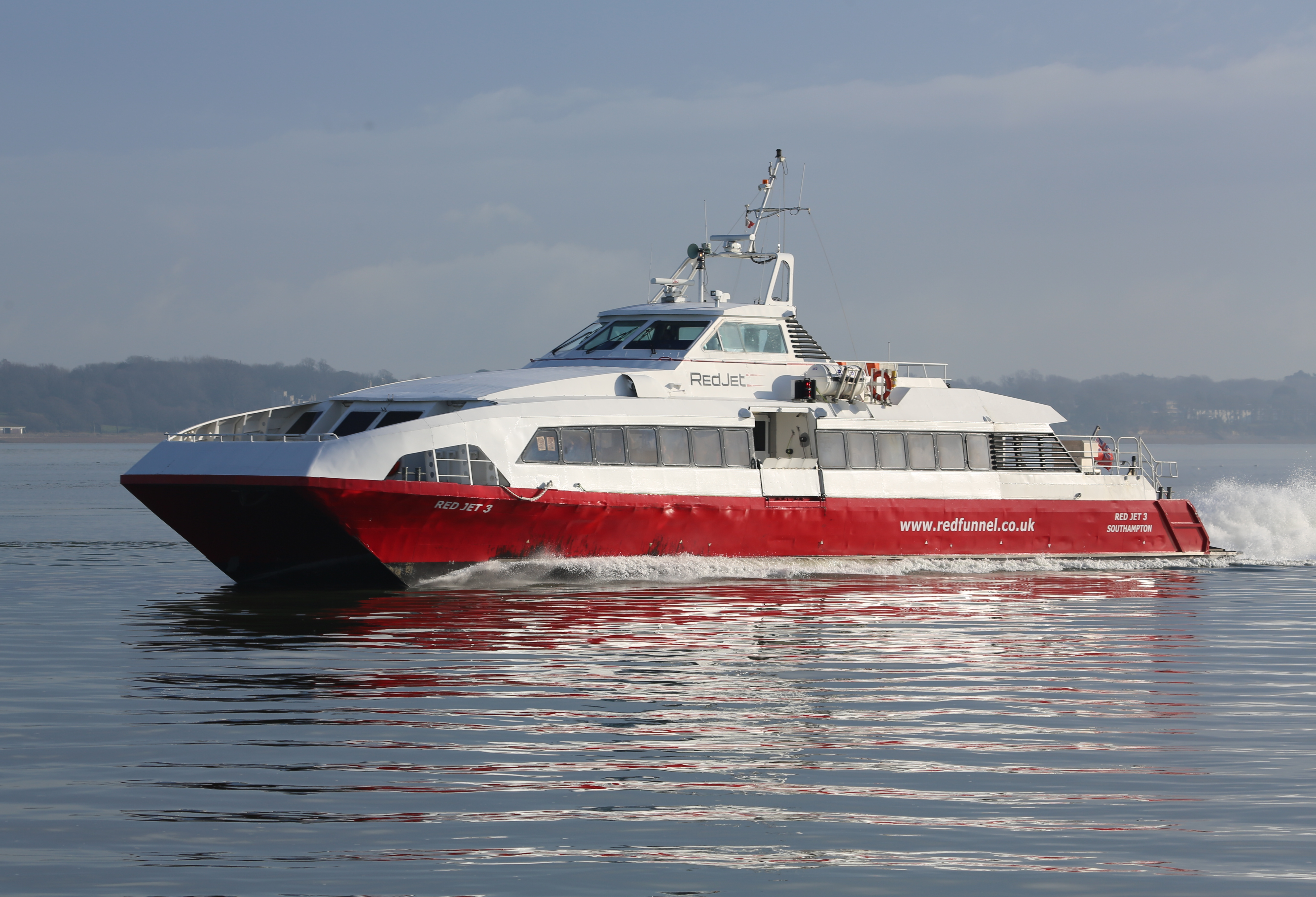 Photo of Red jet 3 on southampton water